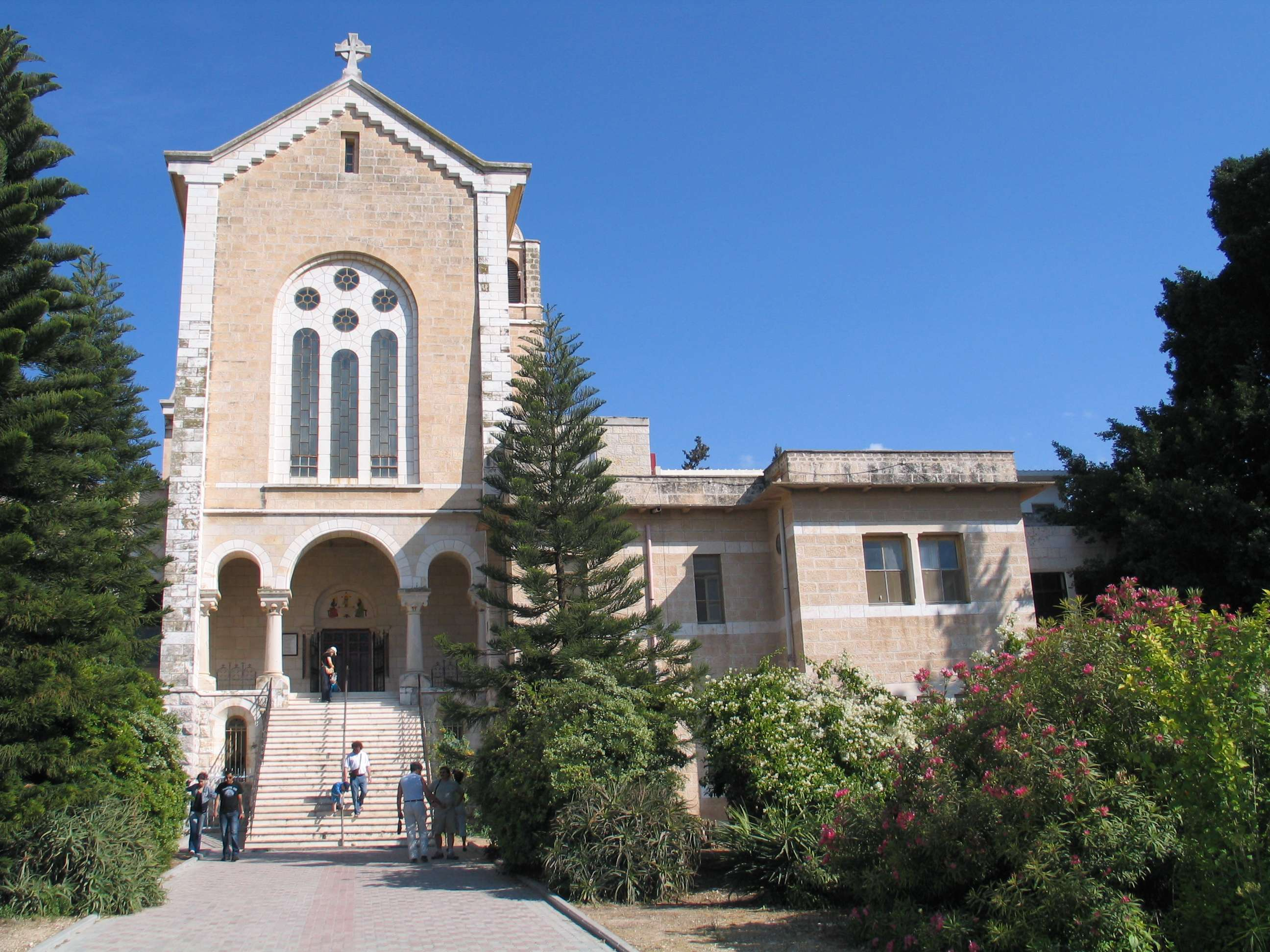 Trappist monastery in Latrun, Israel.